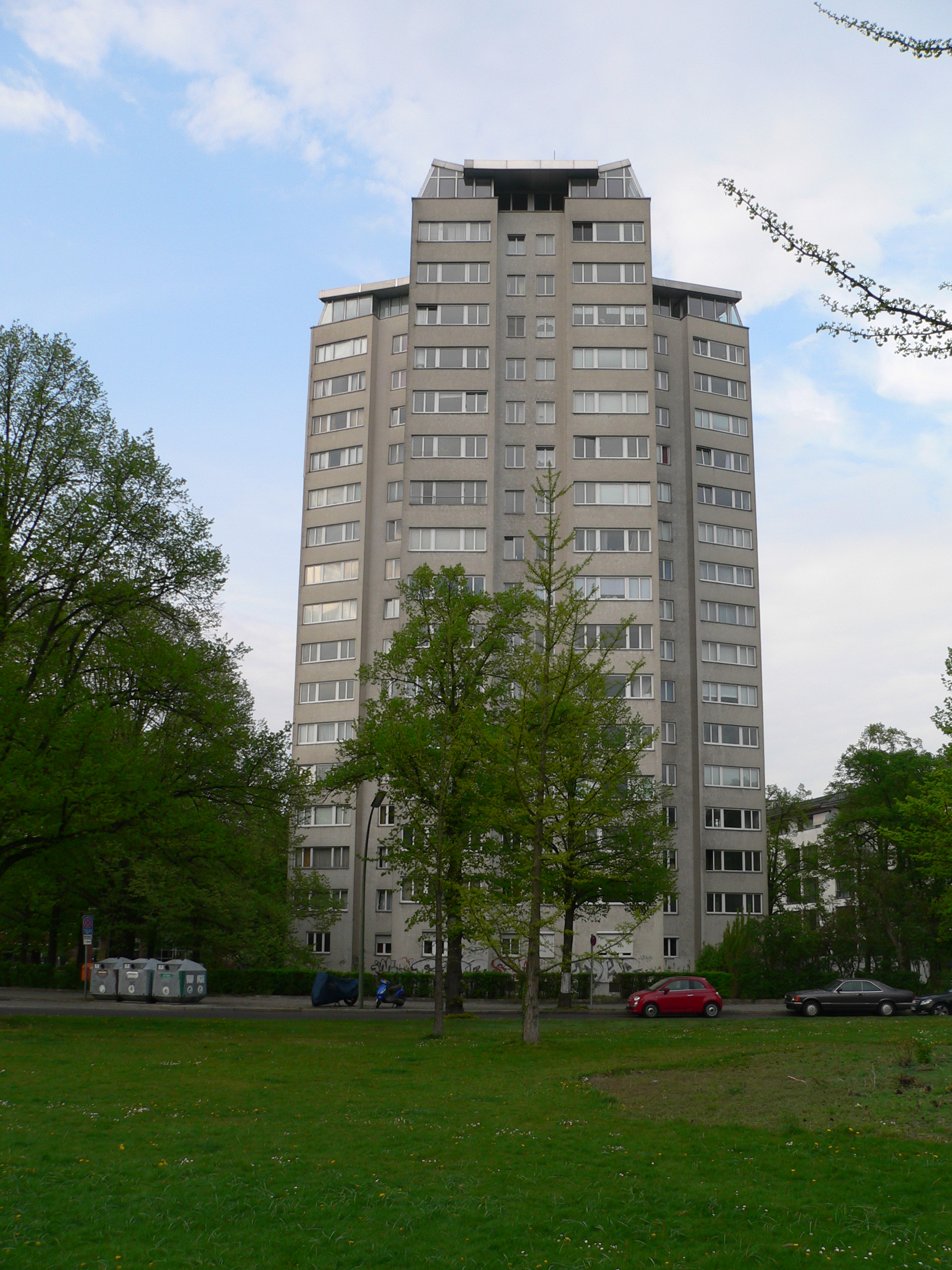 Berlin-Schmargendorf Am Roseneck High-rise Building at Roseneck